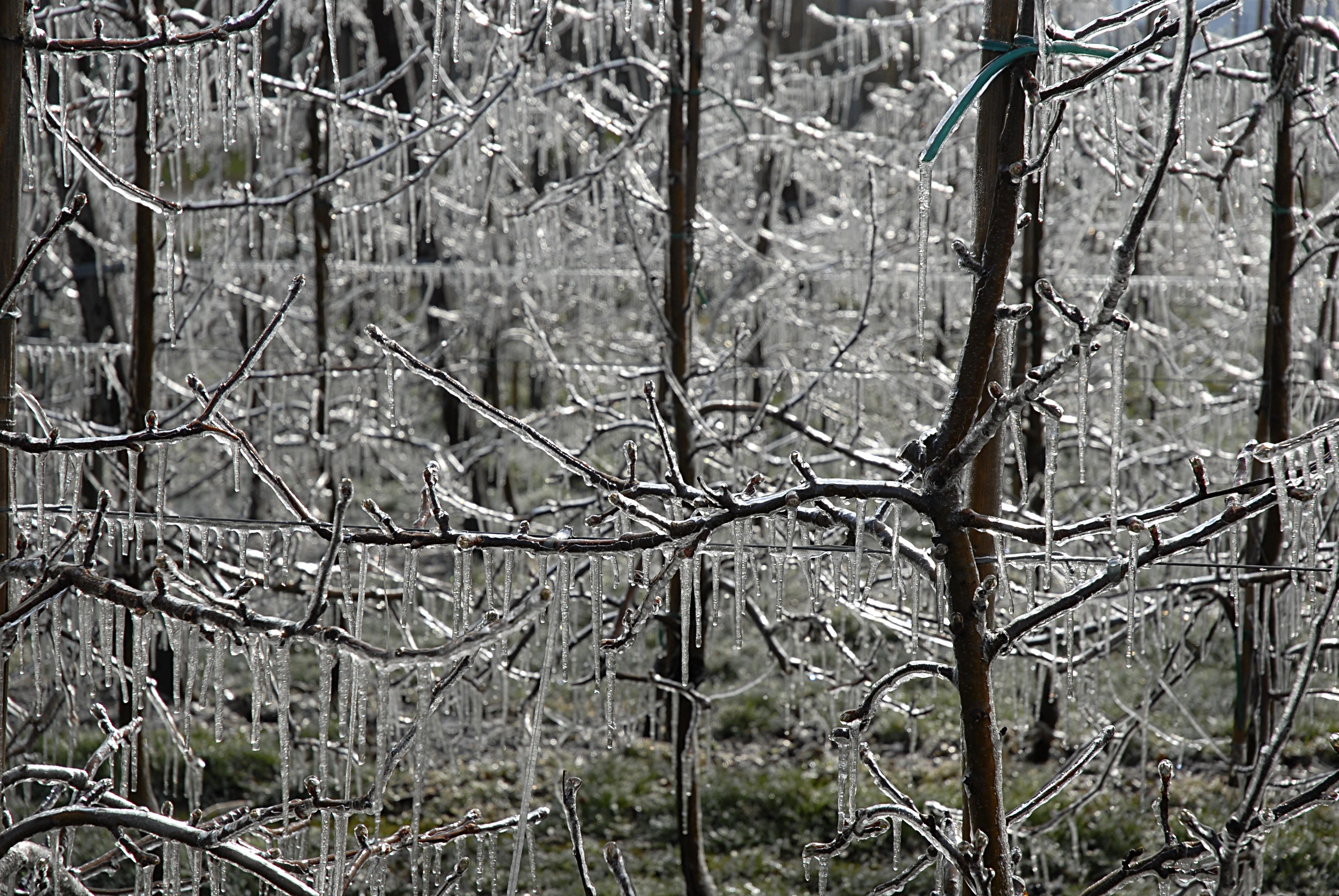 Frost protection with ice of buds and blossoms of apple trees in the Vinschgau near Morter, South Tyrol